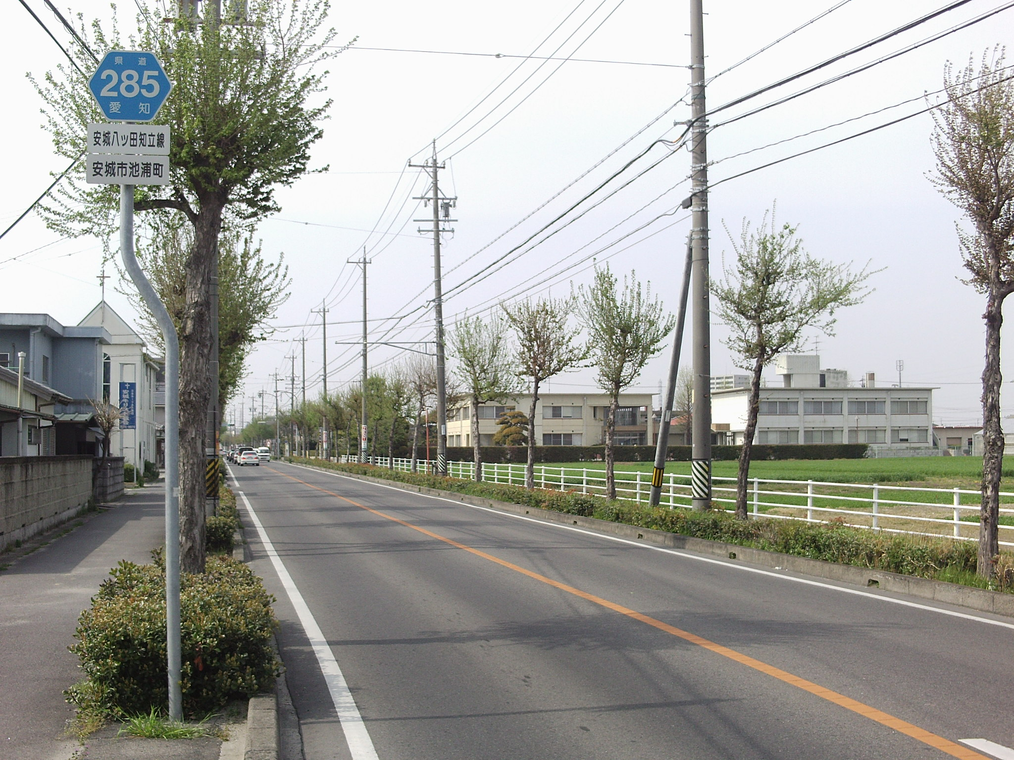 Aichi prefectural road No.285 in Ikeuracho, Anjo, Aichi.